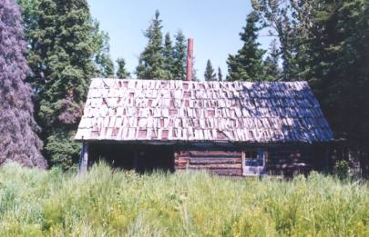 Andrew Berg's home cabin, built 1901